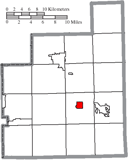 Map of the municipal and township boundaries of Geauga County, Ohio, United States, as of the 2000 census, with the location of the village of Burton highlighted. Township borders are shown only in unincorporated areas in order to differentiate incorporated and unincorporated areas more clearly.